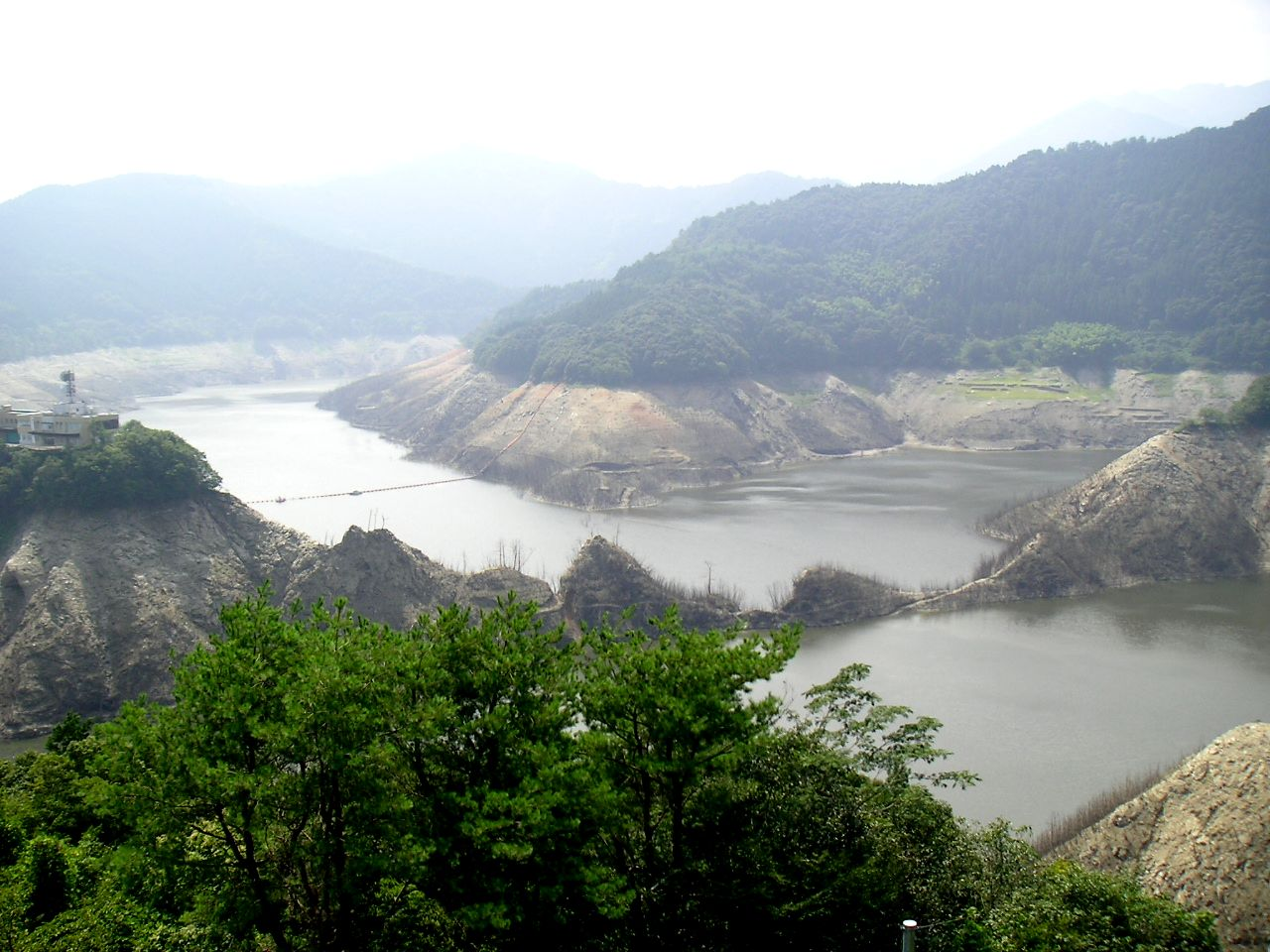 Sameura dam, Kochi Prefecture, Japan